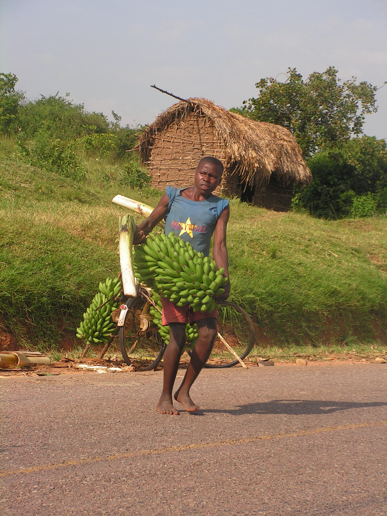 Matooke seller on the Kabale-Mbarara road